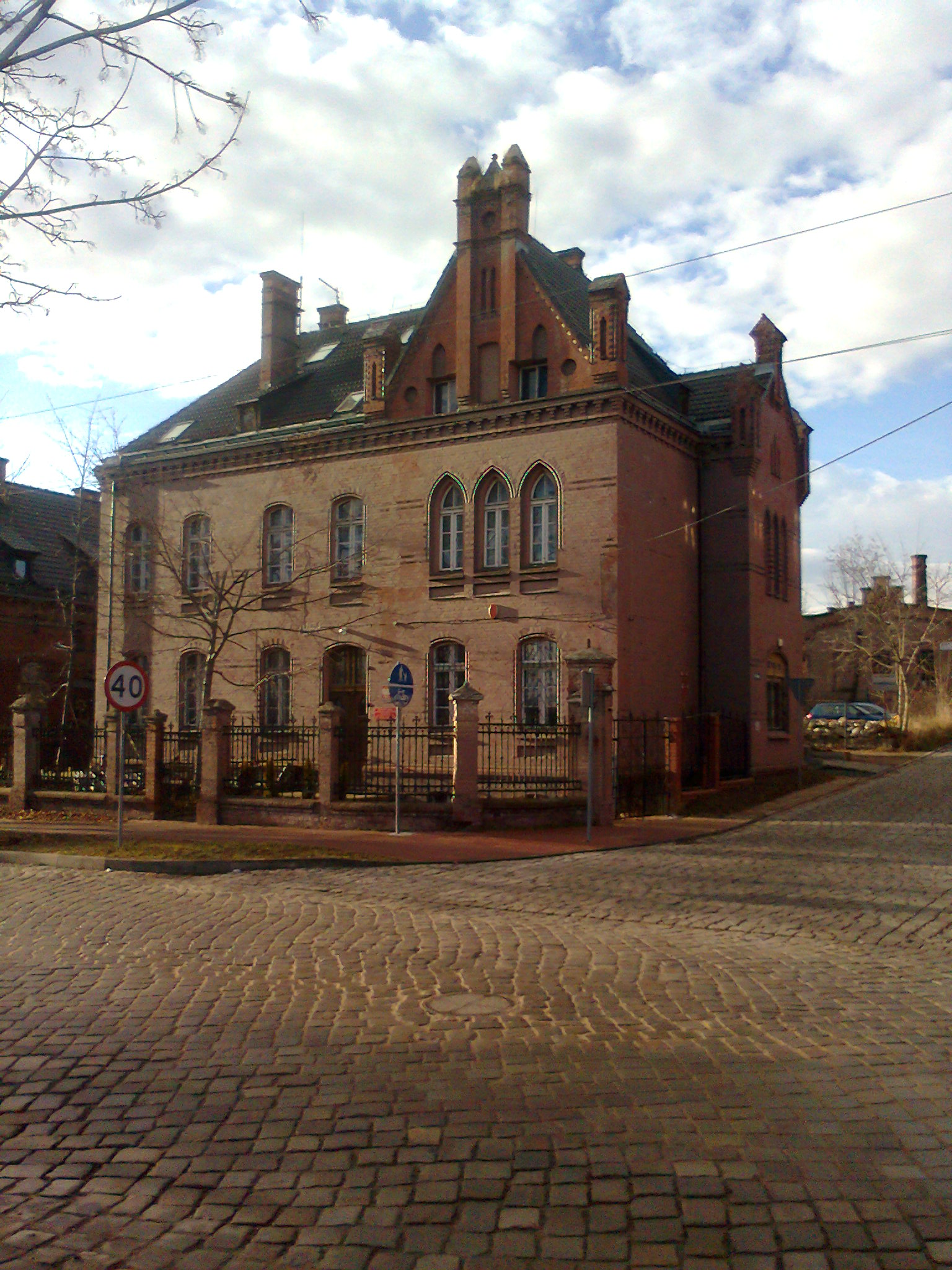 26A Jarosława Dąbrowskiego Street in Prudnik